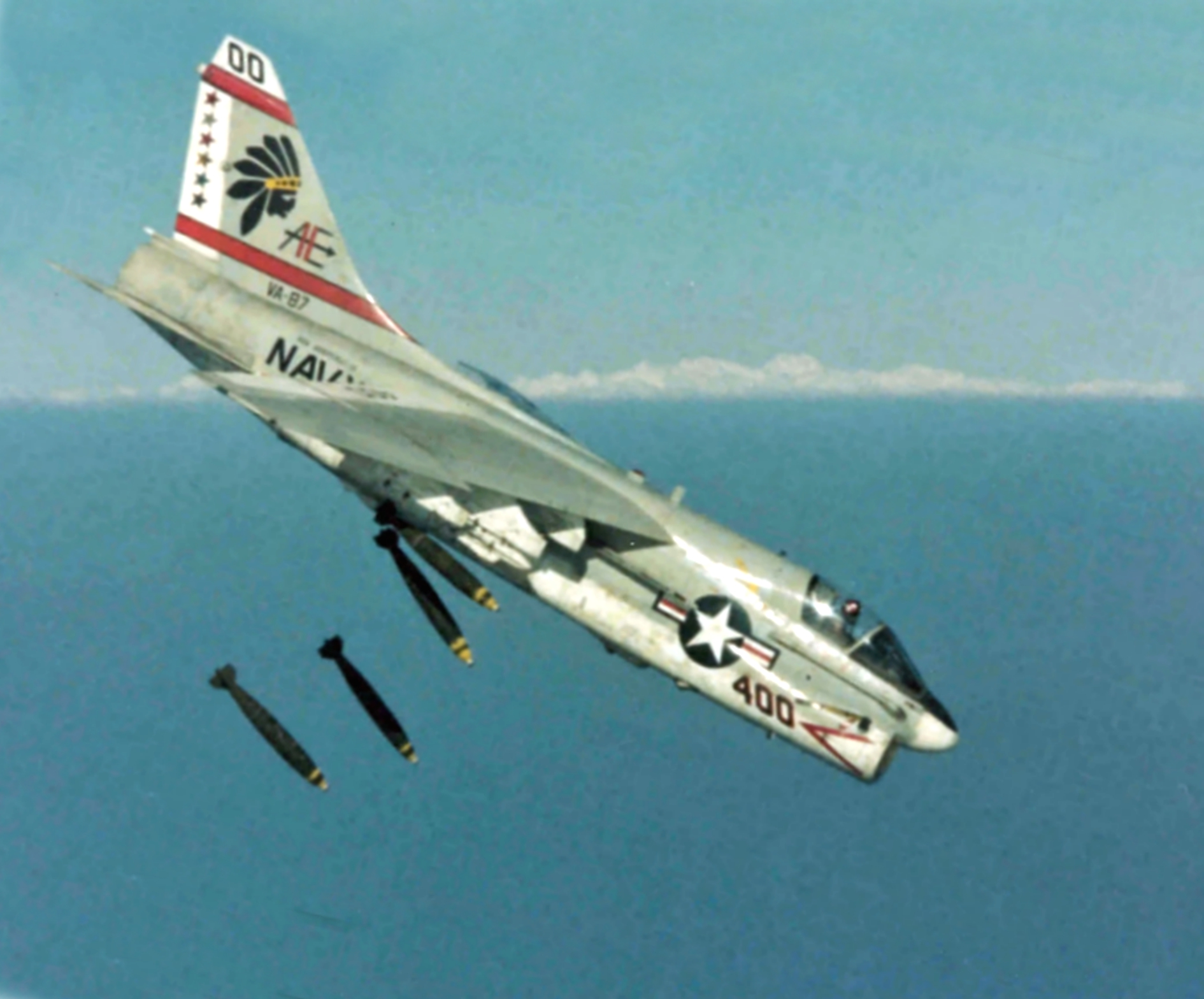 A U.S. Navy LTV A-7E Corsair II from Attack Squadron VA-87 Golden Warriors dropping Mk 82 227 kg bombs. VA-87 was assigned to Carrier Air Wing 6 (CVW-6) aboard the aircraft carrier USS Independence (CV-62) for a deployment to the Mediterranean Sea from 28 June to 14 December 1979.